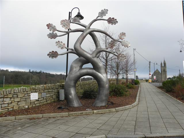 Matrimonial Tree, Ballybofey, near to Ballybofey, Srath an Urlair, Navenny, Drumboe and Burn Daurnett Bridge, Donegal, Ireland. It is placed along the road between Ballybofey and Stranorlar; the church in the background is St Marys Immaculate RC Church across the River Finn in Stranorlar H1494 : Church of Mary Immaculate, Stranorlar See close-up of plaque here H1494 : Plaque, The Matrimonial Tree